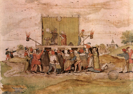 Cambrai, Bibl. mun., ms. 0126, B f. 053 - vue 1title QS:P1476,en:"Cambrai, Bibl. mun., ms. 0126, B f. 053 - vue 1" label QS:Len,"Cambrai, Bibl. mun., ms. 0126, B f. 053 - vue 1" The image comes from the Counter tenor part of 4 partbooks from 1542, Bruges, Flanders. They were created for Zeghere van Male, a wealthy merchant - part of the upper middle class. They contain dutch and french songs, italian madrigals and a few instrumental pieces including dances as well as some sacred works popular in Bruges at the time. They are huge works with over 300 pages in each book and offer a unique insight into what was popular in the upper middle class at the time - and show the great diversity both in language and music. They are held at Library Municipal de Cambrai, France.